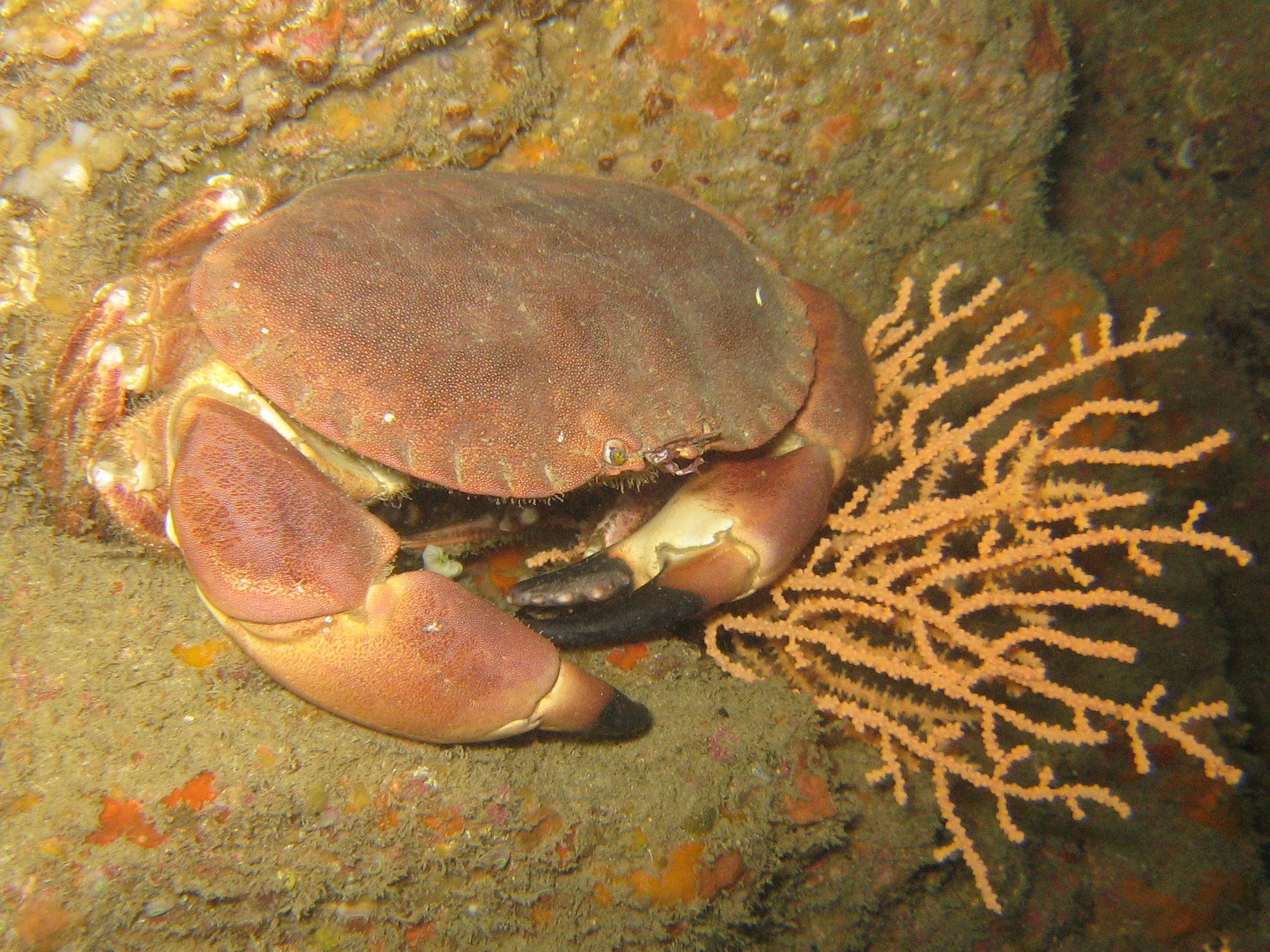 Cancer pagurus in Carantec.